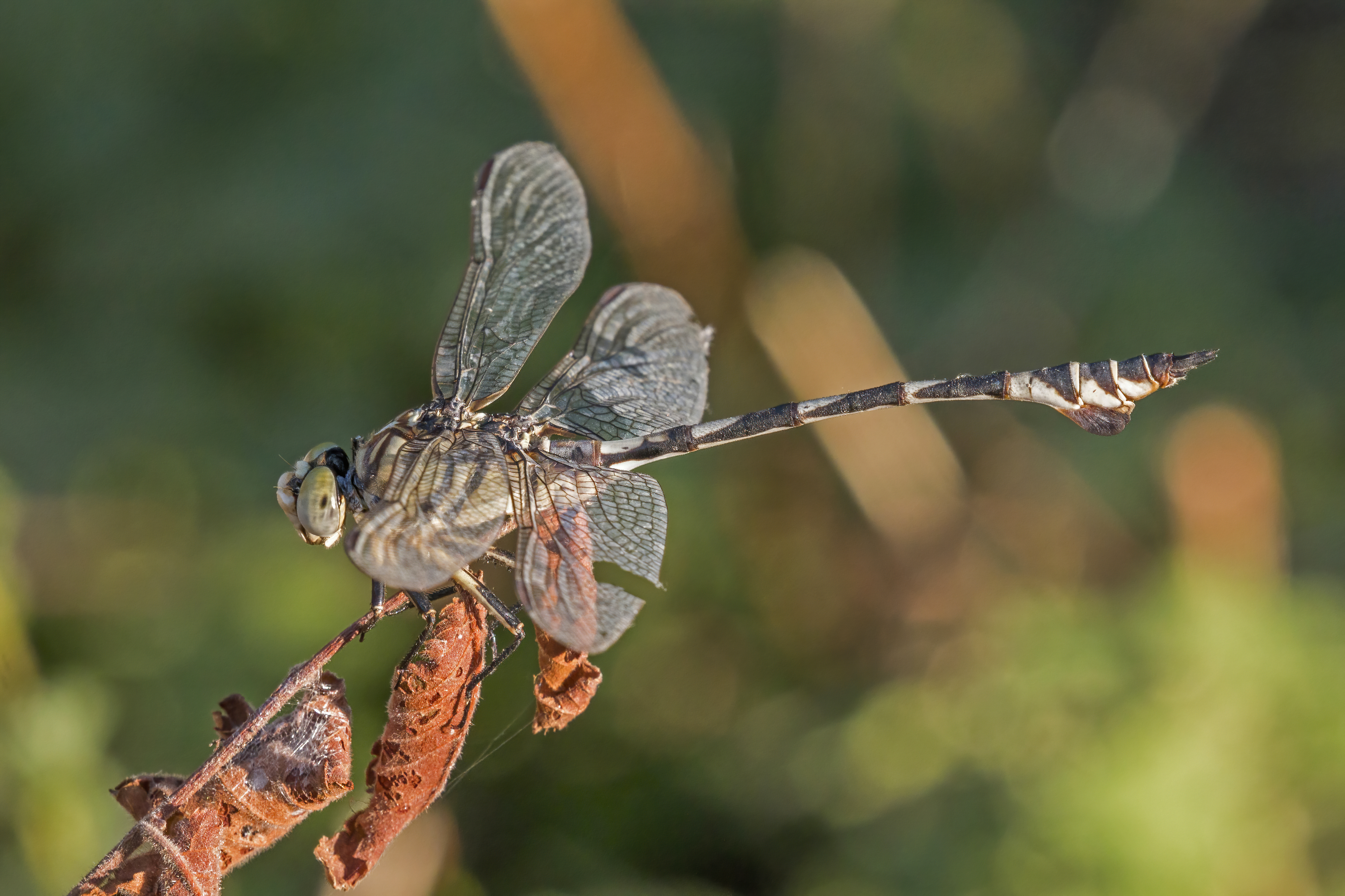 Bladetail (Lindenia tetraphylla) male, Republic of Macedonia